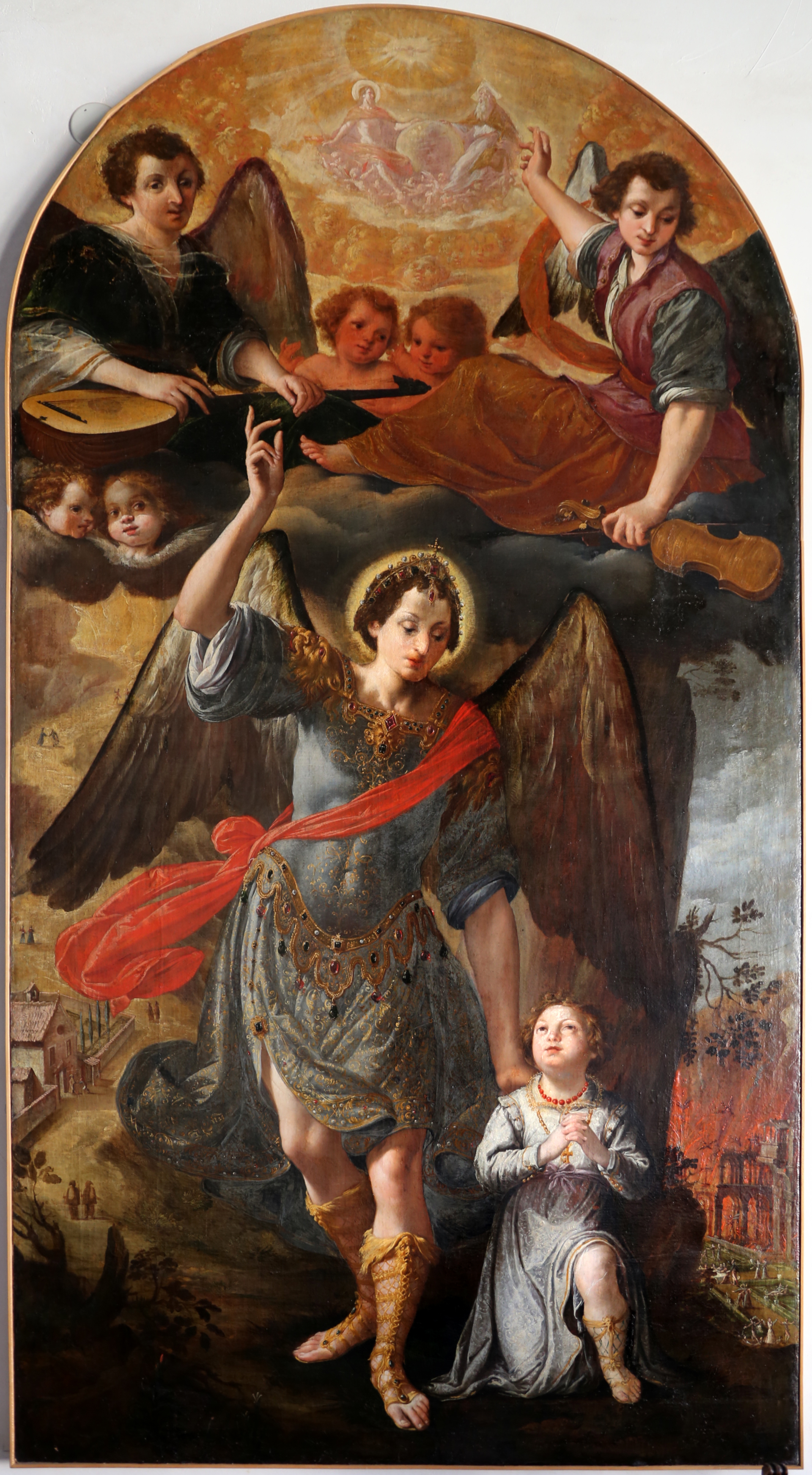 Paintings in the Koper Regional Museum